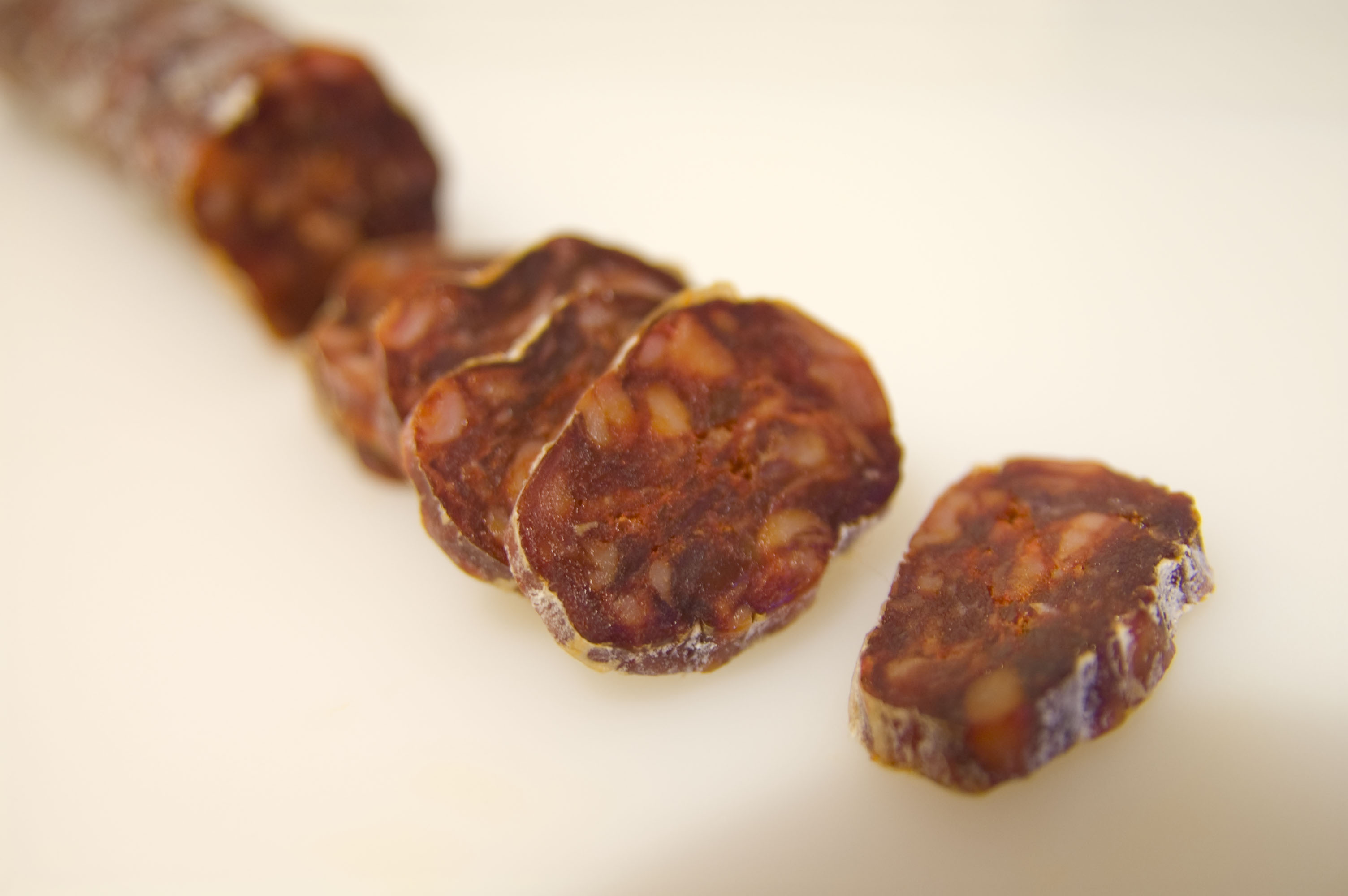 The arrival of 20 kilograms of fine pork products from Guarrate, my father's birthplace, is an event that deserves a proper unboxing ceremony.